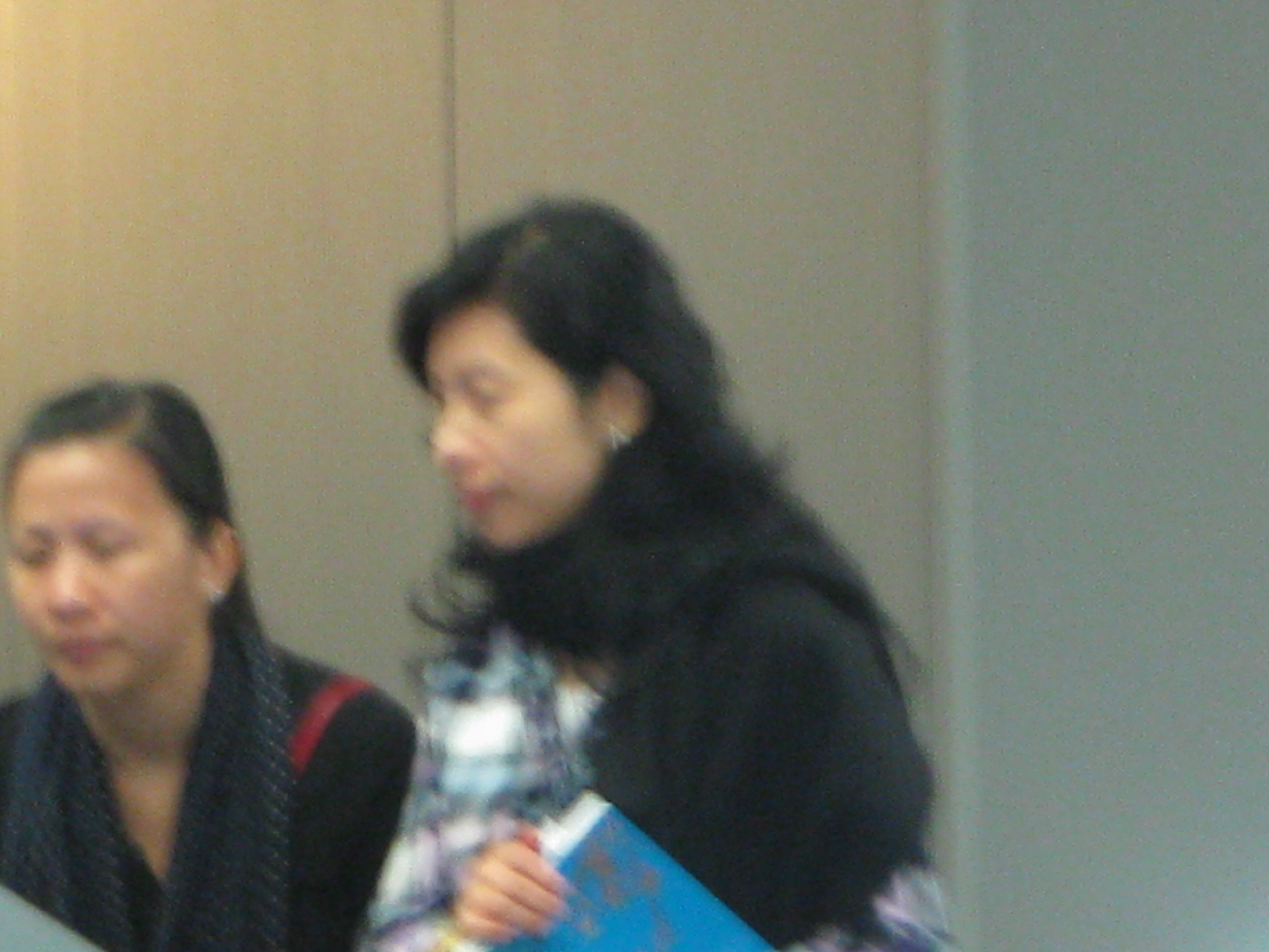 Yu Fei, a Hong Kong writer